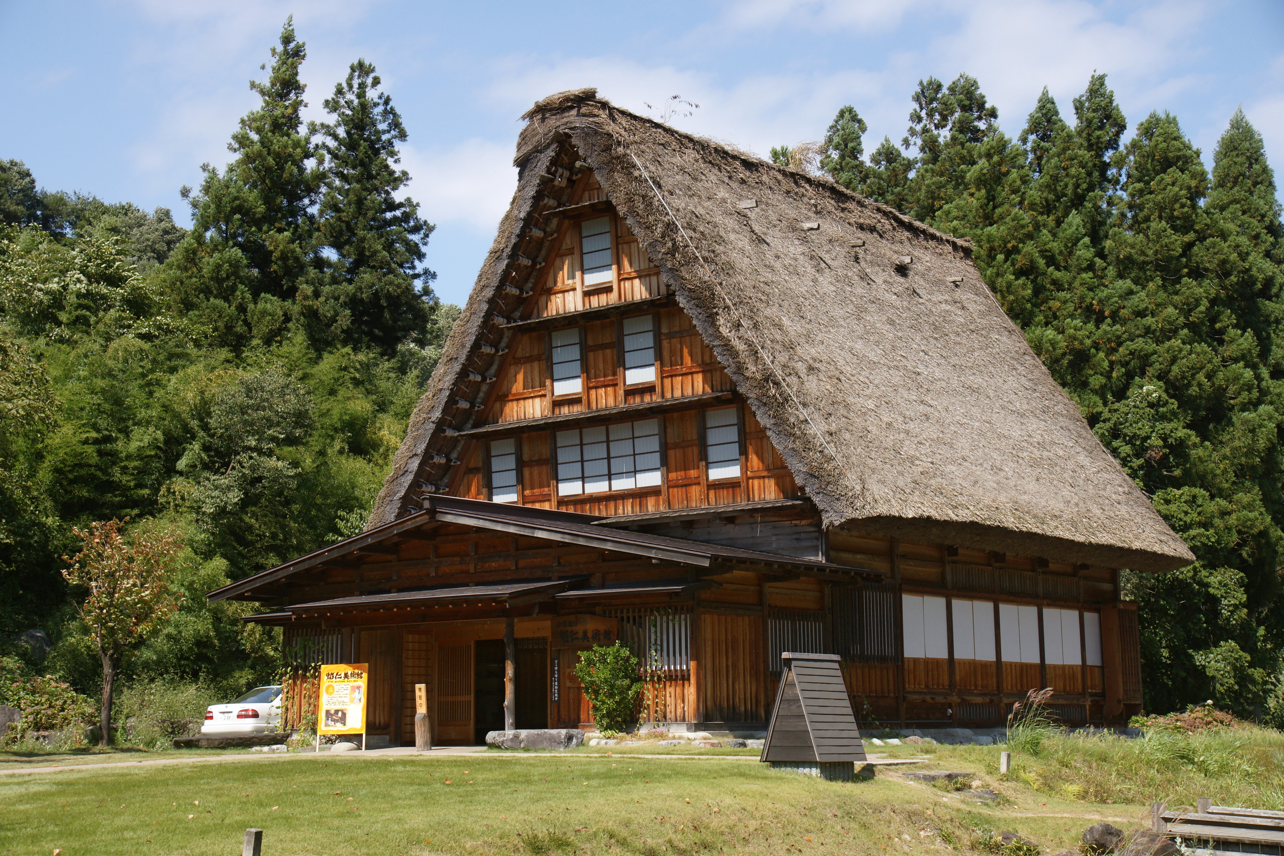 Shirakawa-go (Ogi) in Shirakawa, Gifu prefecture, Japan